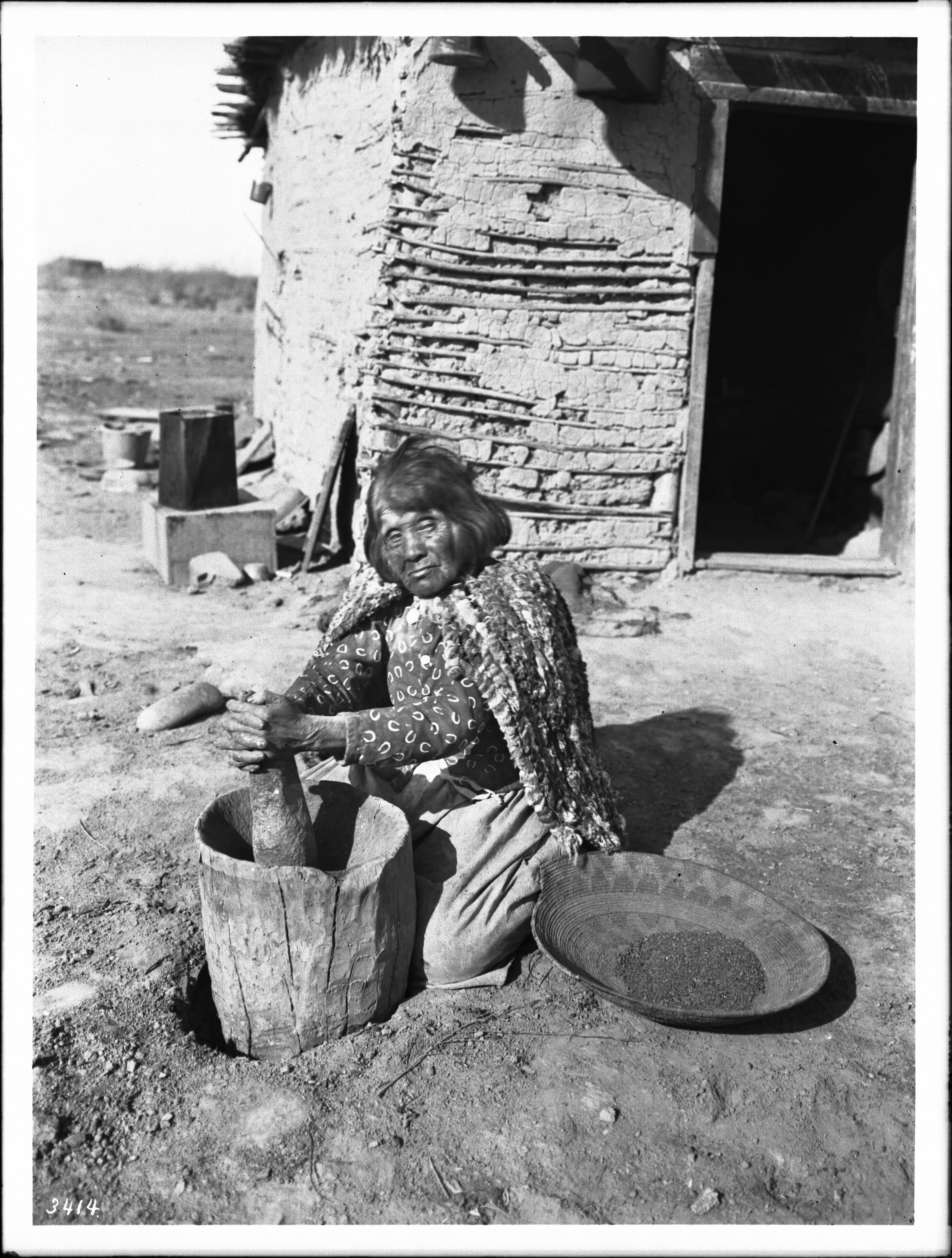 Mojave Indian woman pounding mesquite beans in a metate made from the stump of a tree, ca.1900 Photograph of a Mojave Indian woman sitting on the ground, pounding mesquite beans in a metate made from the stump of a tree for mesquite flour, ca.1900. She kneels behind the metate with a large shallow basket containing beans to the right. She wears a woven blanket around her shoulders, a long plain skirt, and print shirt. *Behind the woman, a mud and stick dwelling with a thatched roof can be seen. A large open doorway can be seen at right. Beside the wall at left sit several containers including a crate and a pail. Call number: CHS-3414 Photographer: Pierce, C.C. (Charles C.), 1861-1946 Filename: CHS-3414 Coverage date: circa 1900 Part of collection: California Historical Society Collection, 1860-1960 Type: images Part of subcollection: Title Insurance and Trust, and C.C. Pierce Photography Collection, 1860-1960 Repository name: USC Libraries Special Collections Format: glass plate negatives Microfiche number: 1-173- Archival file: chs_Volume95/CHS-3414.tiff Repository address: Doheny Memorial Library, Los Angeles, CA 90089-0189 Geographic subject (country): USA Format (aacr2): 3 photographs : glass photonegative, photoprints, b&w ; 22 x 17 cm. Rights: Digitally reproduced by the USC Digital Library; From the California Historical Society Collection at the University of Southern California Project: USC Accession number: 3414 Repository Contributing entity: California Historical Society Date created: circa 1900 Publisher (of the digital version): University of Southern California. Libraries Format (aat): photographic prints; photographs Legacy record ID: chs-m16041; USC-1-1-1-13931 Access conditions: Send requests to address or e-mail given. Phone (213) 821-2366; fax (213) 740-2343. Subject (file heading): Indians -- Mojave Subject (lcsh): Indians of North America; Mohave Indians; Clothing and dress; Women; Dwellings; Cookery Subject: Mojave Indians; Mojave Indians